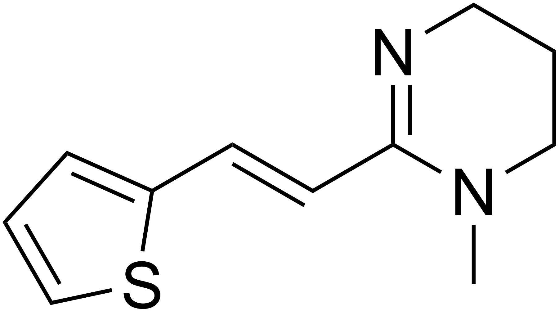 chemical structure of pyrantel